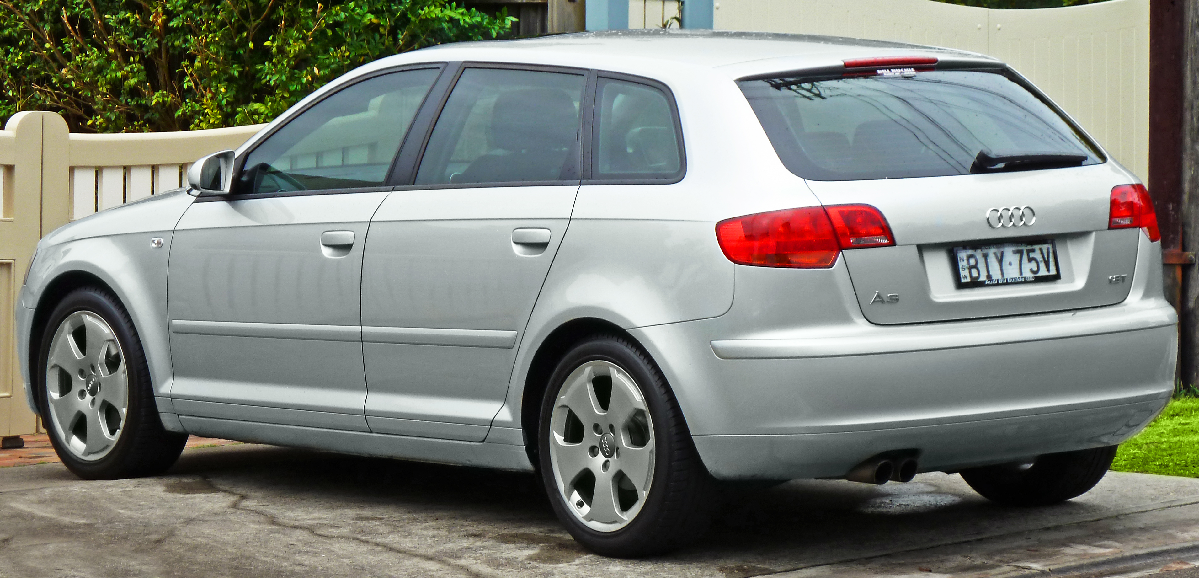 2005–2008 Audi A3 (8PA) 1.8 TFSI 5-door Sportback. Photographed in Lindfield, New South Wales, Australia.